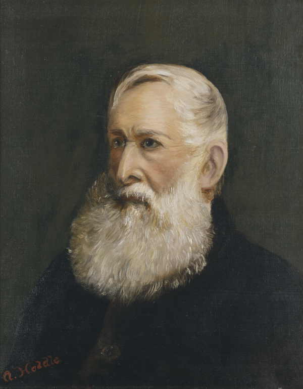 Category:Images of Australian people